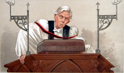 Caricature of Canon Alfred Ainger LLD. Caption reads "Temple Reader".